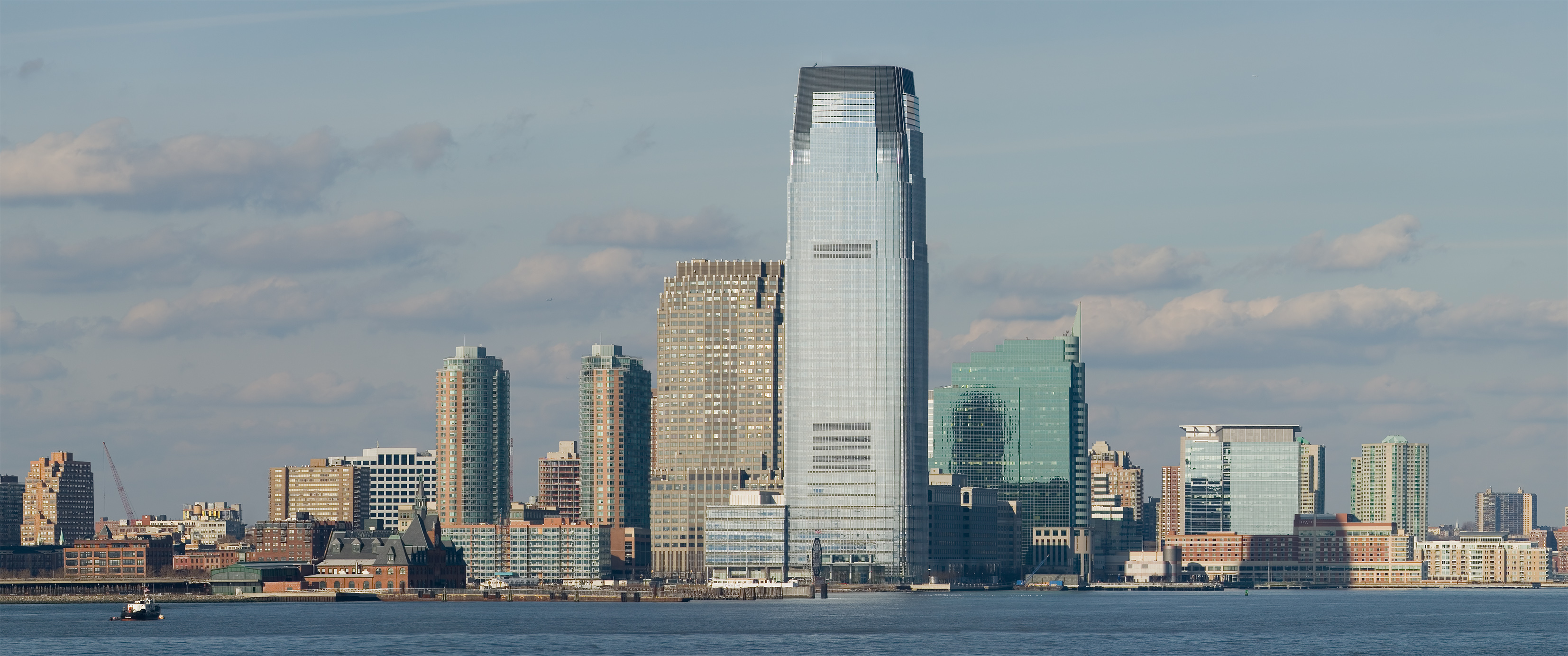 A four segment panorama of Jersey City, NJ. Taken by myself with a Canon 5D and 70-200mm f/2.8L lens at 200mm.